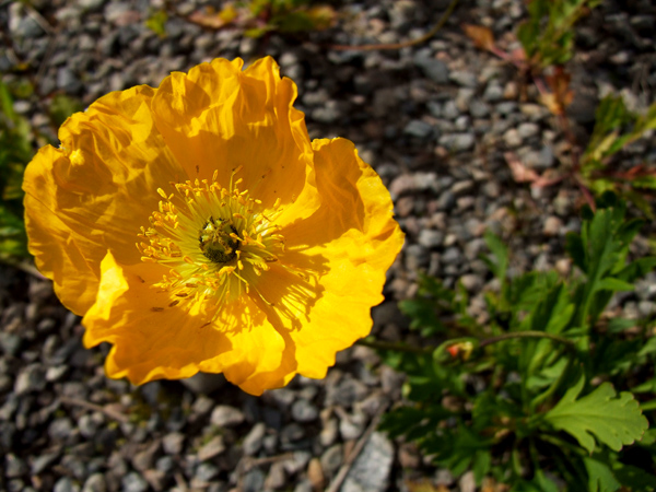 Yellow poppy (Papaver croceum